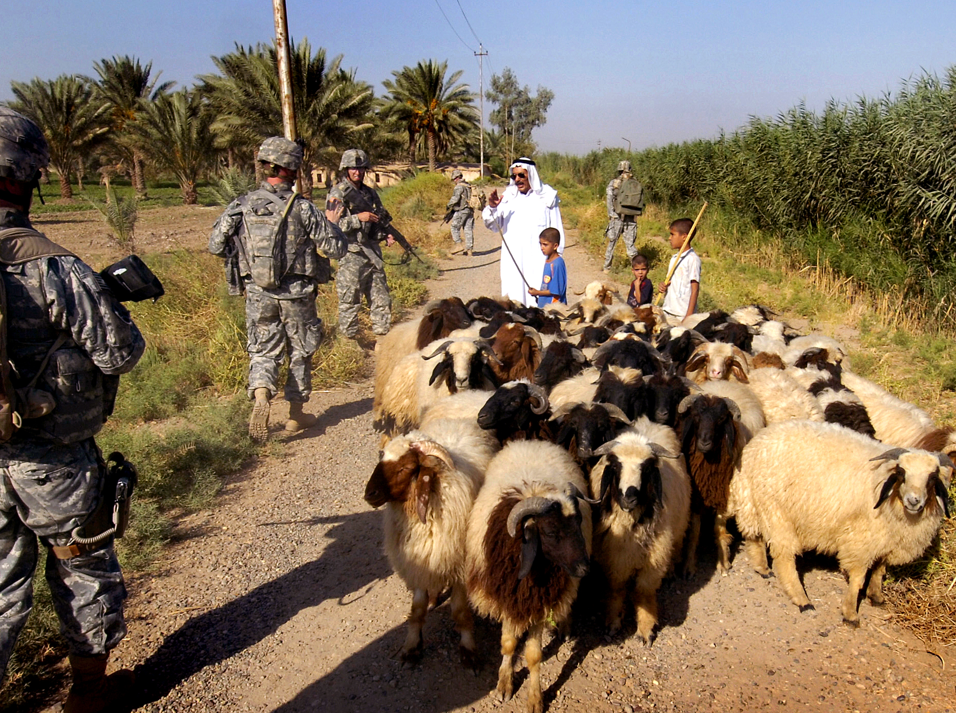 ON THE ROAD, U.S. Army soldiers head toward a caravansary in Hana Qadim, Iraq, to conduct a search. Rumantsch: Schuldads americans e pasturs iracais a Hana Qadim en Irac (2006).